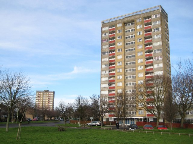 Evenlode Tower, Blackbird Leys Road, Blackbird Leys, Oxford (right foreground), and Windrush Tower in the (left background), seen from the southeast from Pegasus Road. The towers were completed in 1962 and each has 60 flats. They are named after two tributaries of the River Thames in West Oxfordshire.